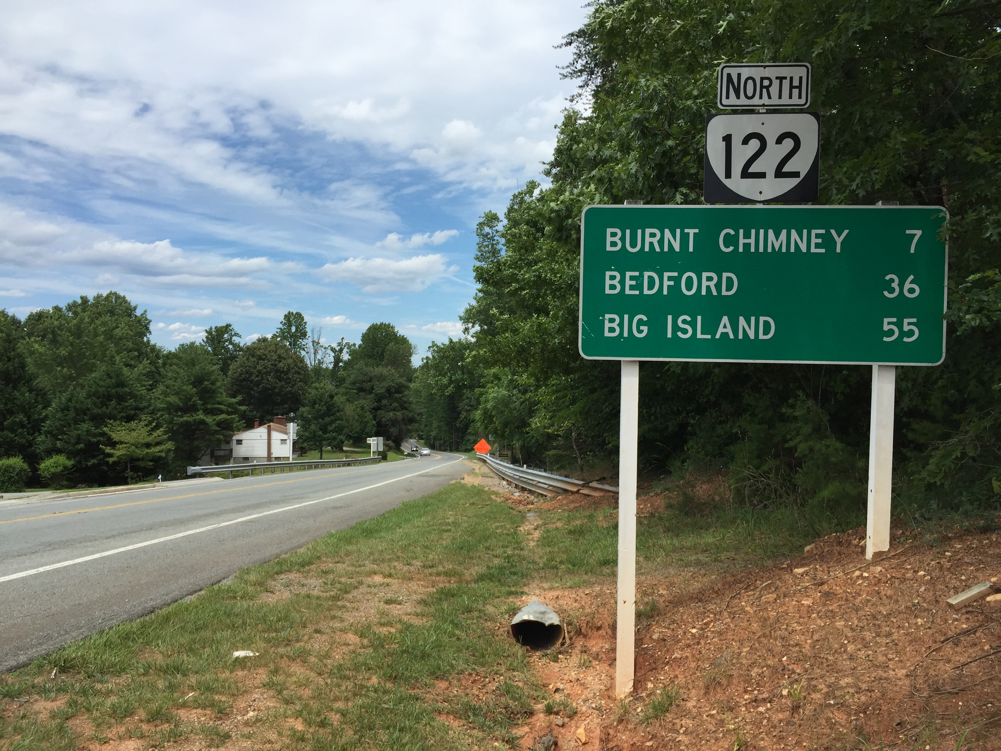 View north along Virginia State Route 122 (Booker T Washington Highway) just north of Wrays Chapel Road (Virginia State Secondary Route 859) in Rocky Mount, Franklin County, Virginia